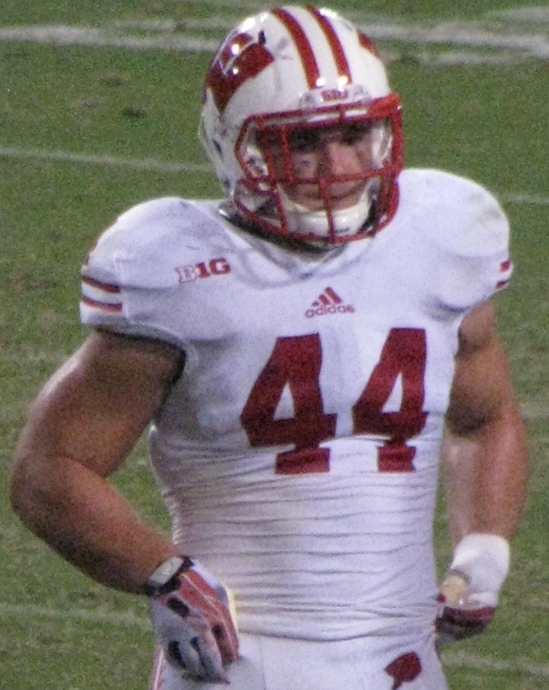 Wisconsin Badgers linebacker Chris Borland September 14, 2013 in Tempe Arizona versus Arizona State Sun Devils.